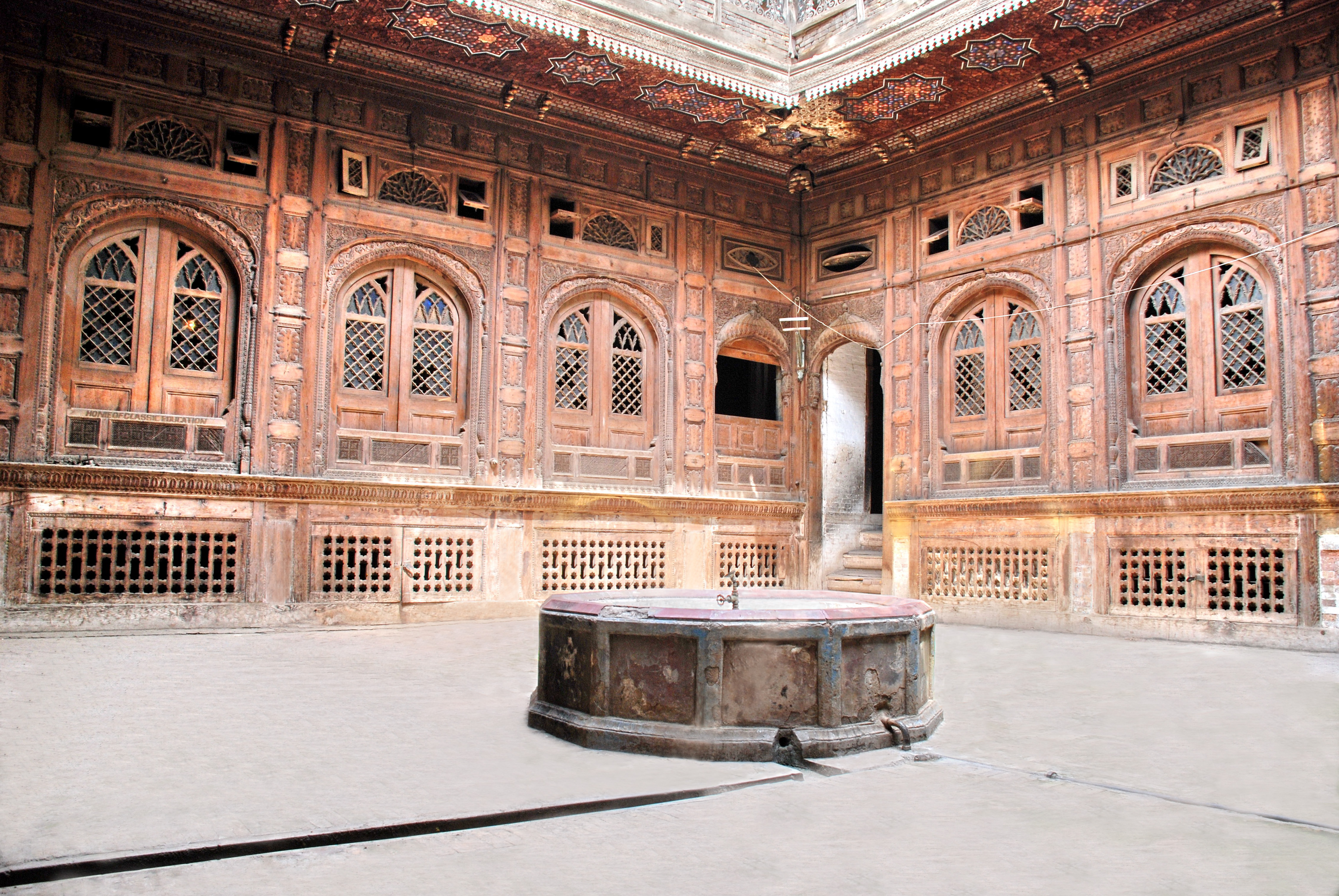 Sethi House Peshawar